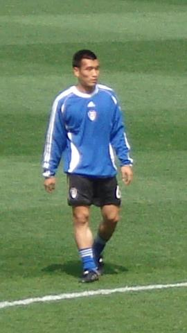 ROK Footballer Cho Won-Hee on April 13th, 2008.